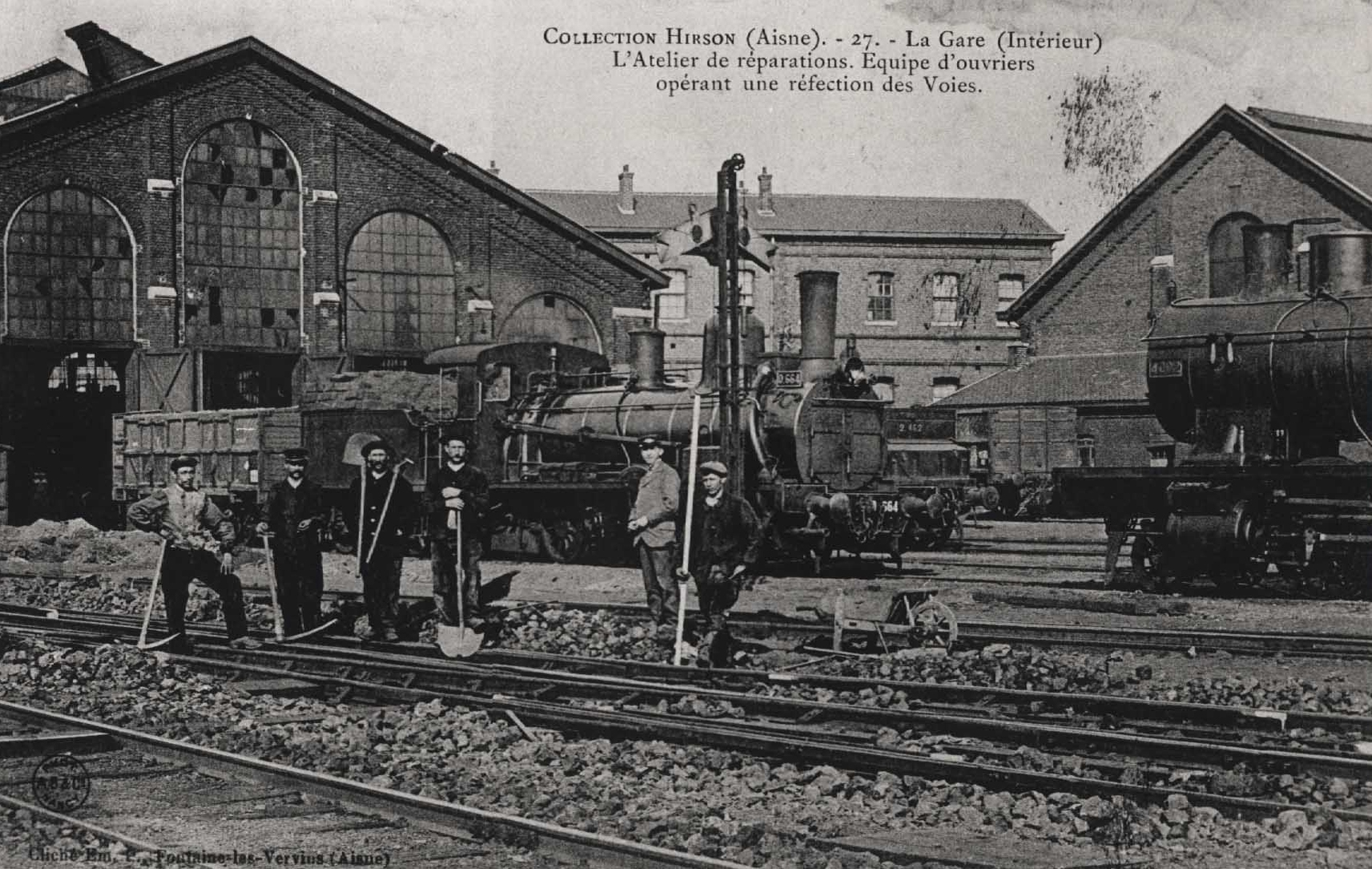 Hirson Railway Station - Inside